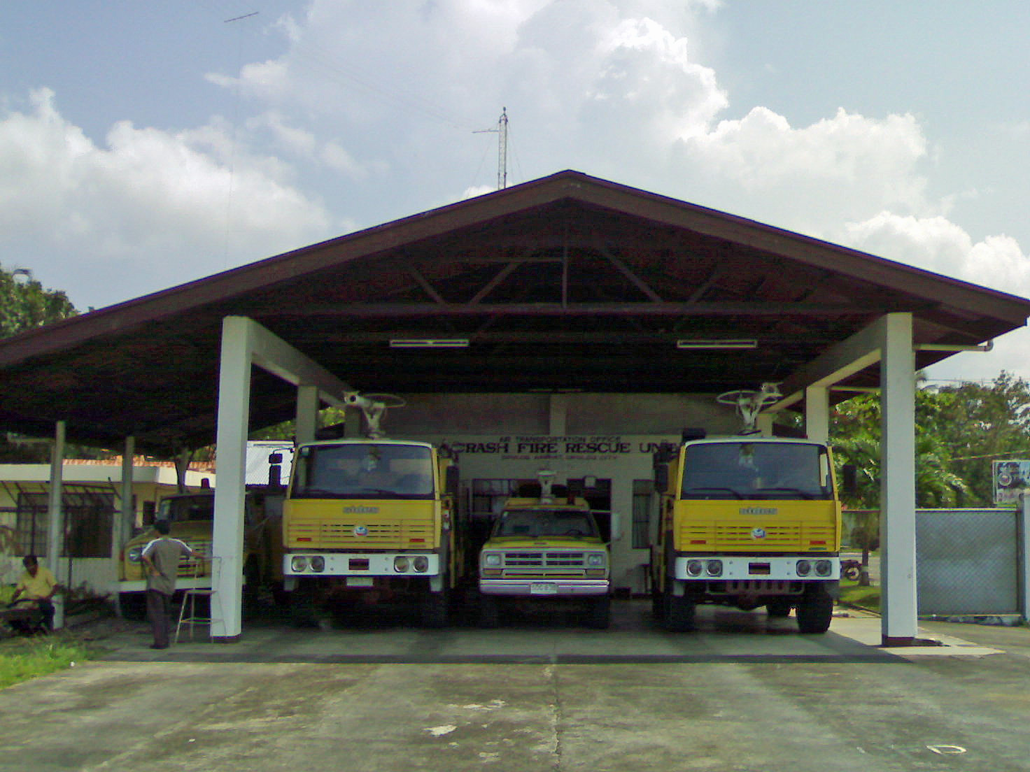 Airport Fire Station. Photo courtesy of Ariel C. Nunag